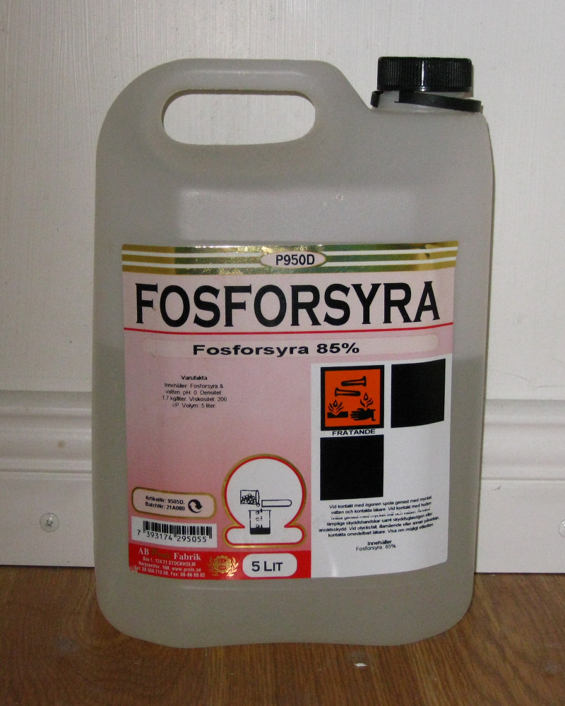 Phosphoric acid, 85%